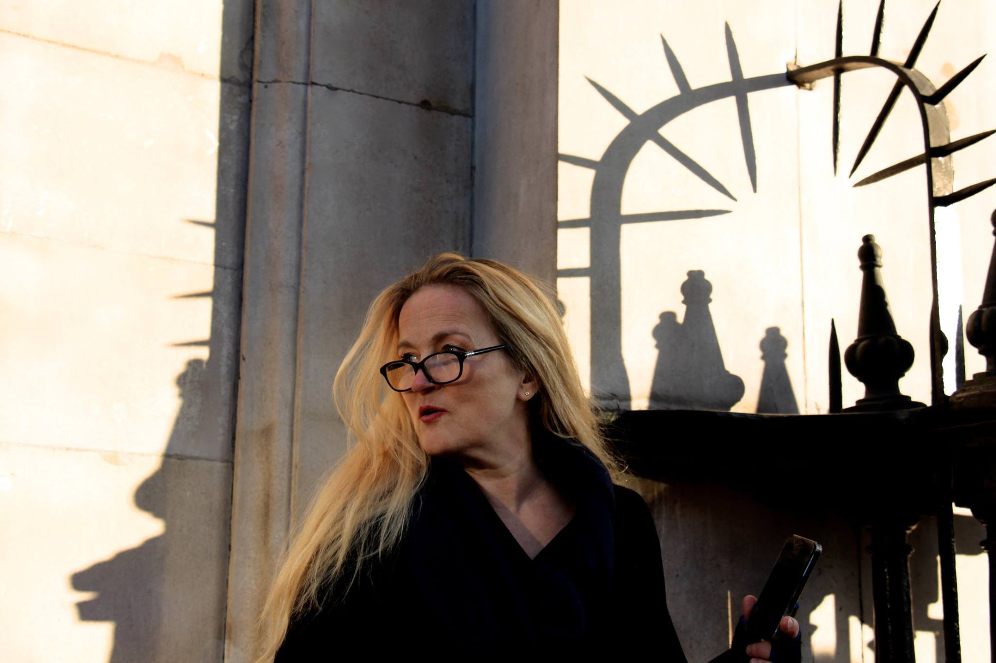 Louisa Young by Habie Schwarz